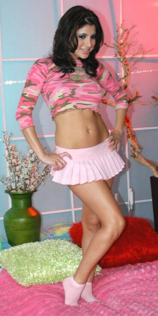 Sativa Rose on set Britney Rears 4 from Hustler, February 22, 2007.